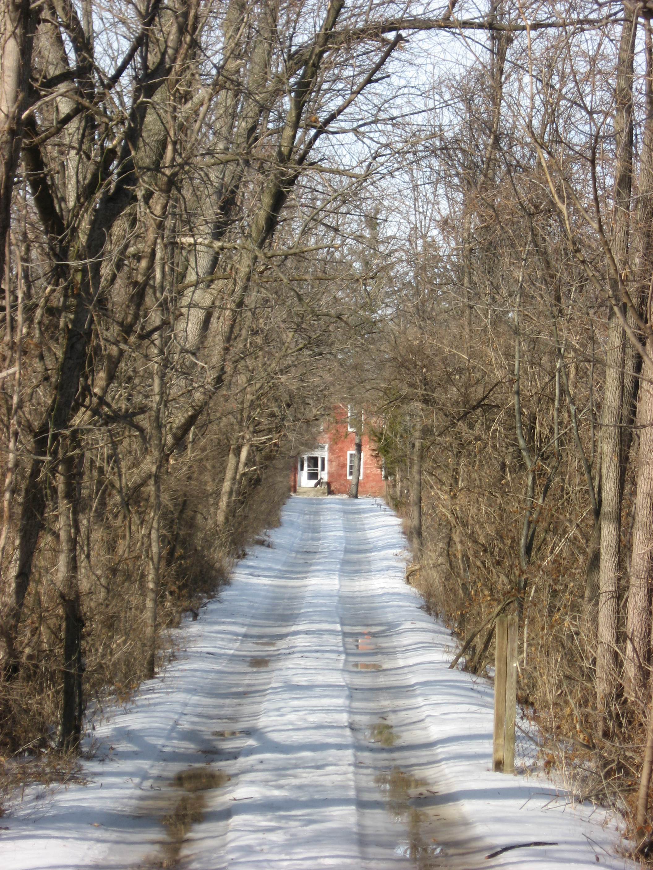 Driveway view of the Thomas Askren House, located at 6550 E. Sixteenth Street in Indianapolis, Indiana, United States. Built in 1833, it is listed on the National Register of Historic Places.